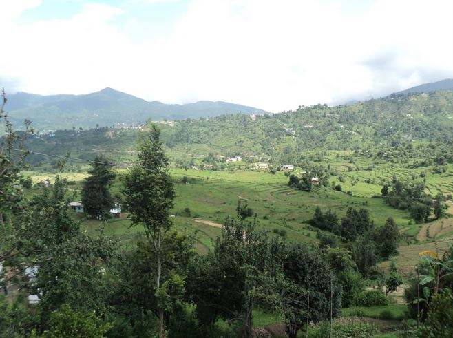 hills of village dhakna,top view